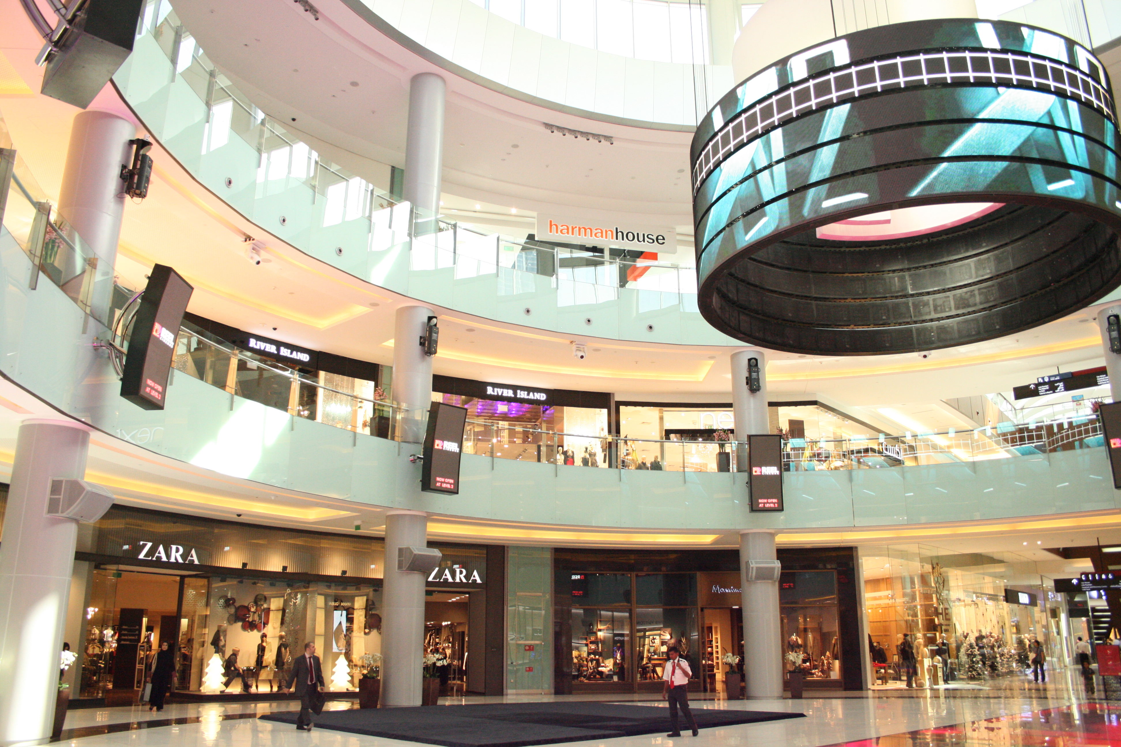 The Dubai Mall, Dubai